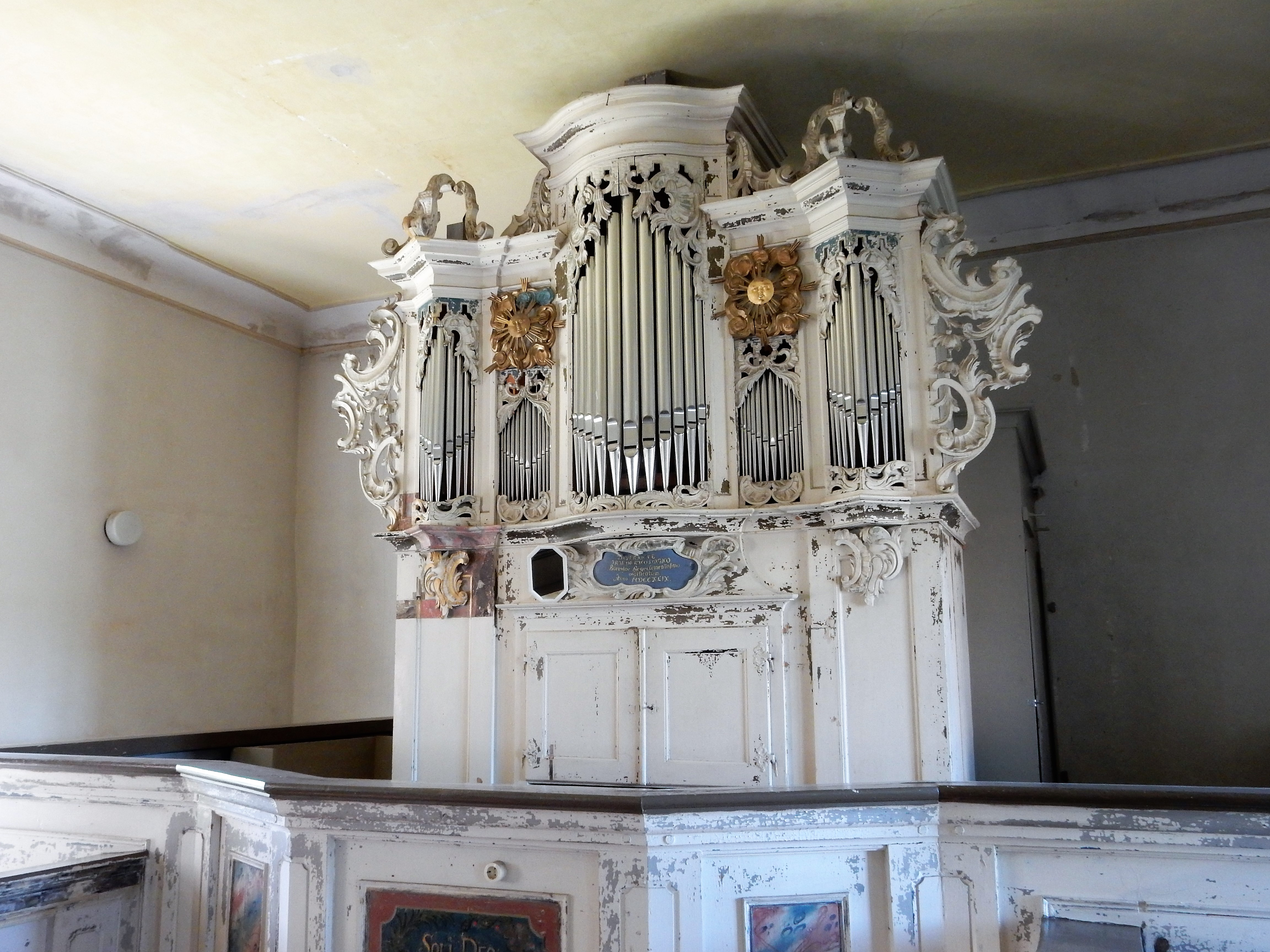 Scholtze organ (1749) at Immanuel church in Gross Schoenebeck, Barnim, Brandenburg